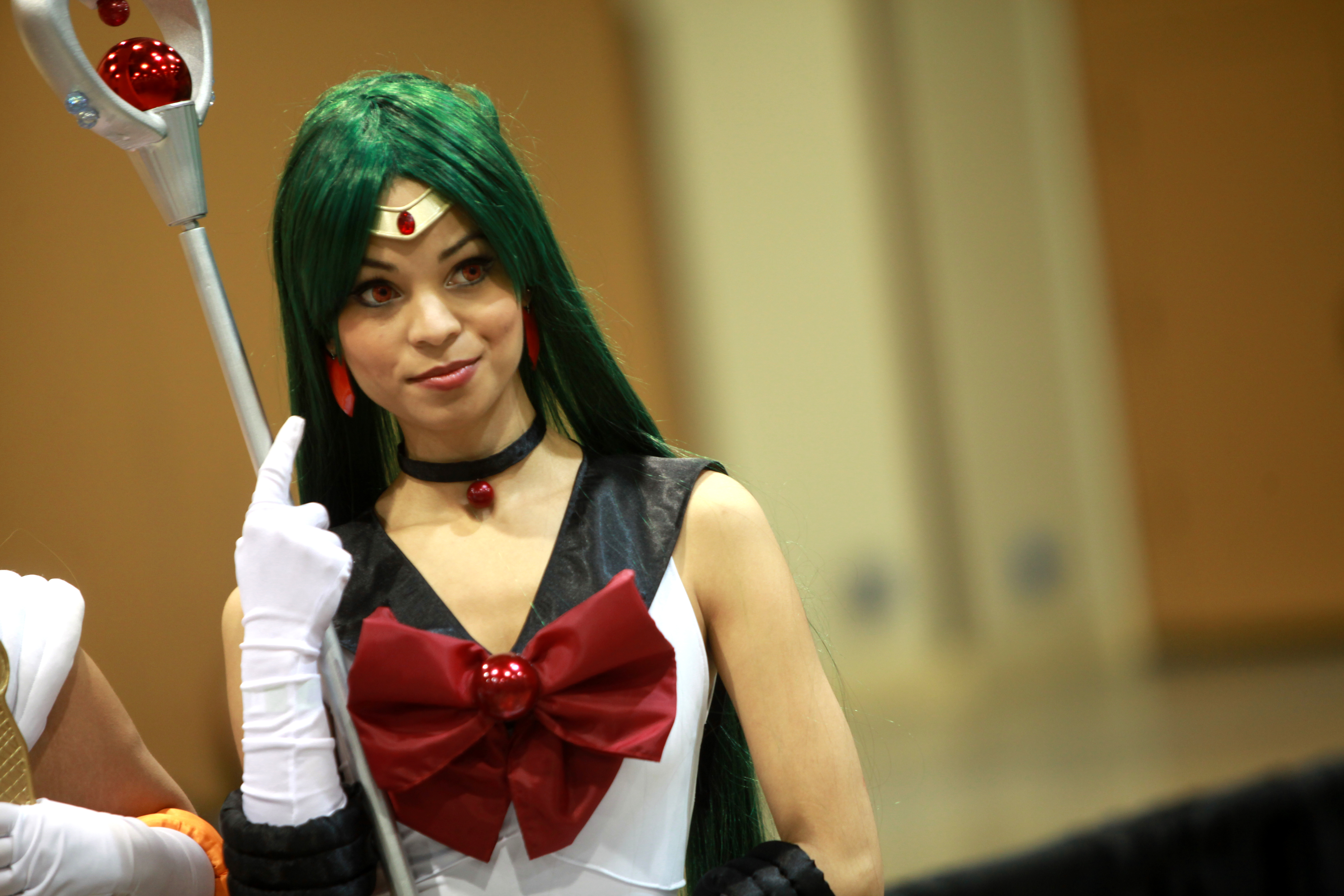 Sailor Pluto cosplayer at the 2014 Amazing Arizona Comic Con at the Phoenix Convention Center in Phoenix, Arizona.